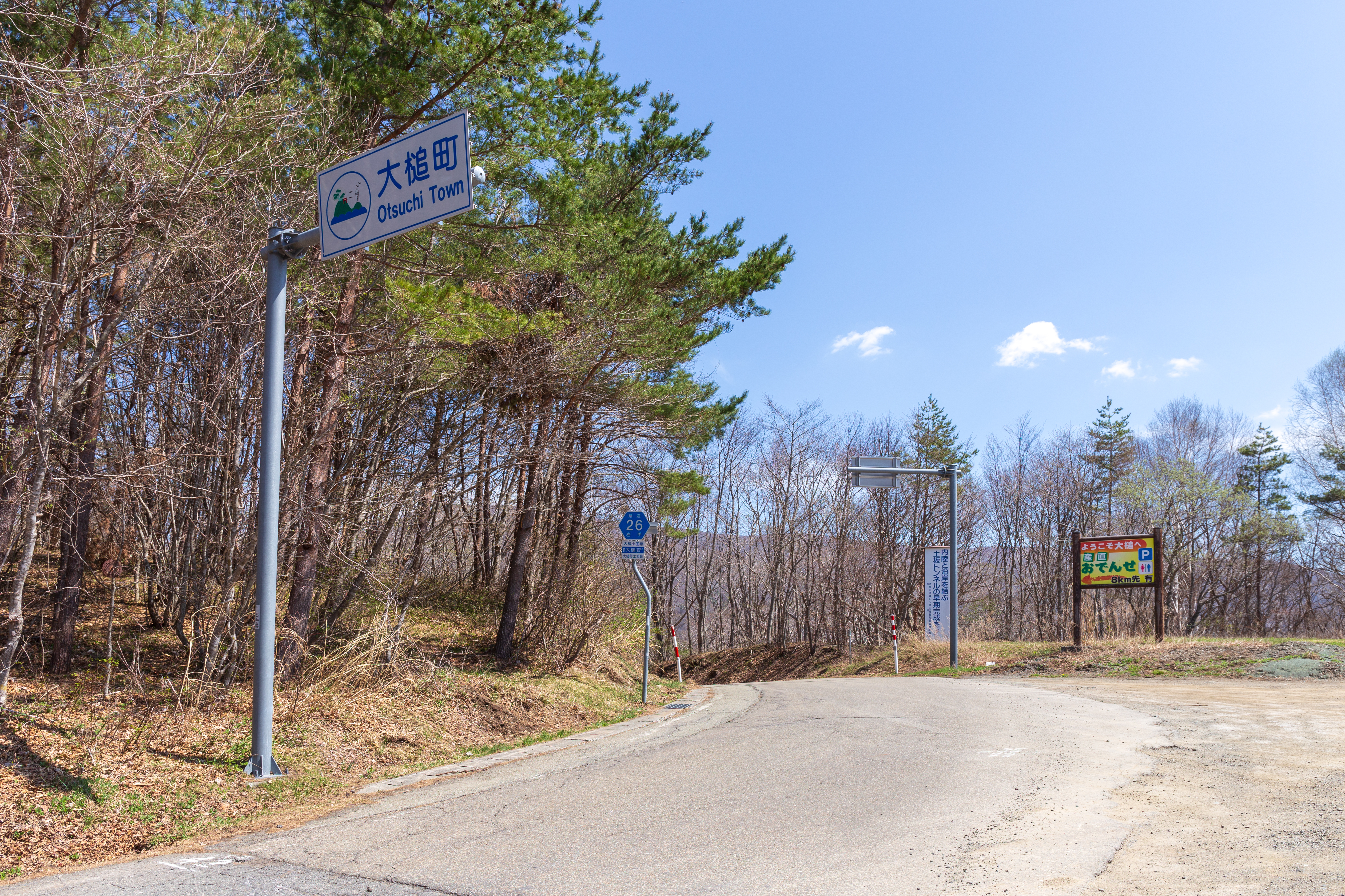 Tsuchisaka Pass on the Iwate Prefectural Road Route 26 on the border between Miyako City and Otsuchi Town, Iwate Prefecture, Japan